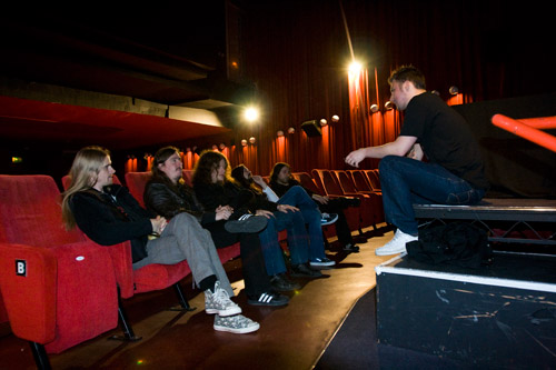 Opeth's DVD screening and signing from the Prince Charles Cinema, London's West End on 4th November 2008.